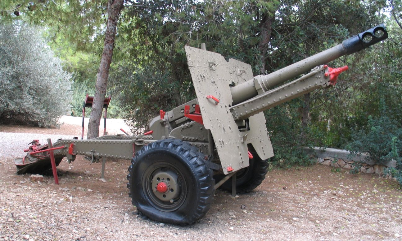 Description: British Ordnance QF 25 pounder field cannon in Beyt ha-Totchan, Zichron Yaakov, Israel. 2005. Source: Photo by me, User:Bukvoed.